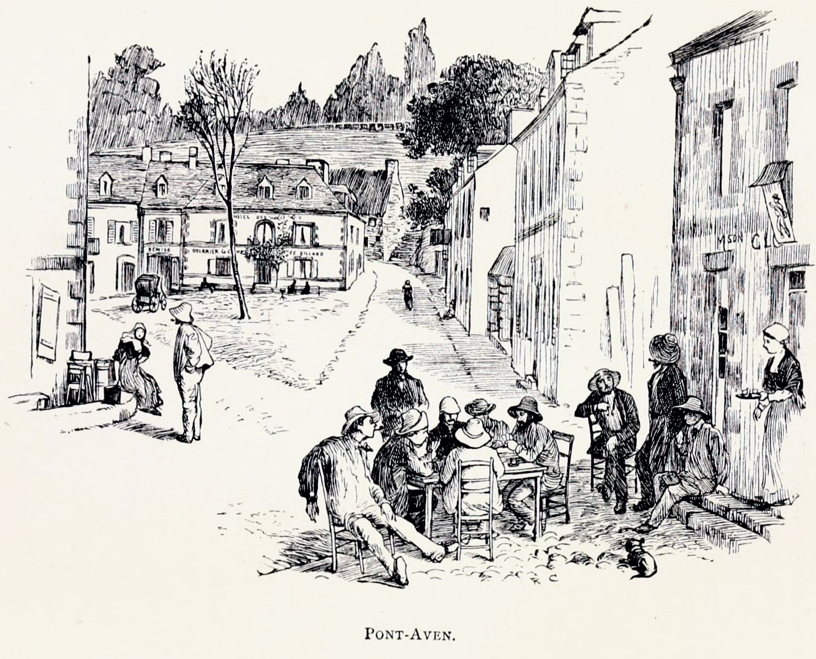 Artists outside the Pension Gloanec, Pont-Aven, from Breton Folk: an Artistic Tour in Brittany, by Henry Blackburn (1881), one of the travel books which Randolph Caldecott illustrated. Randolph accompanied Henry Blackburn on three journeys to Brittany.